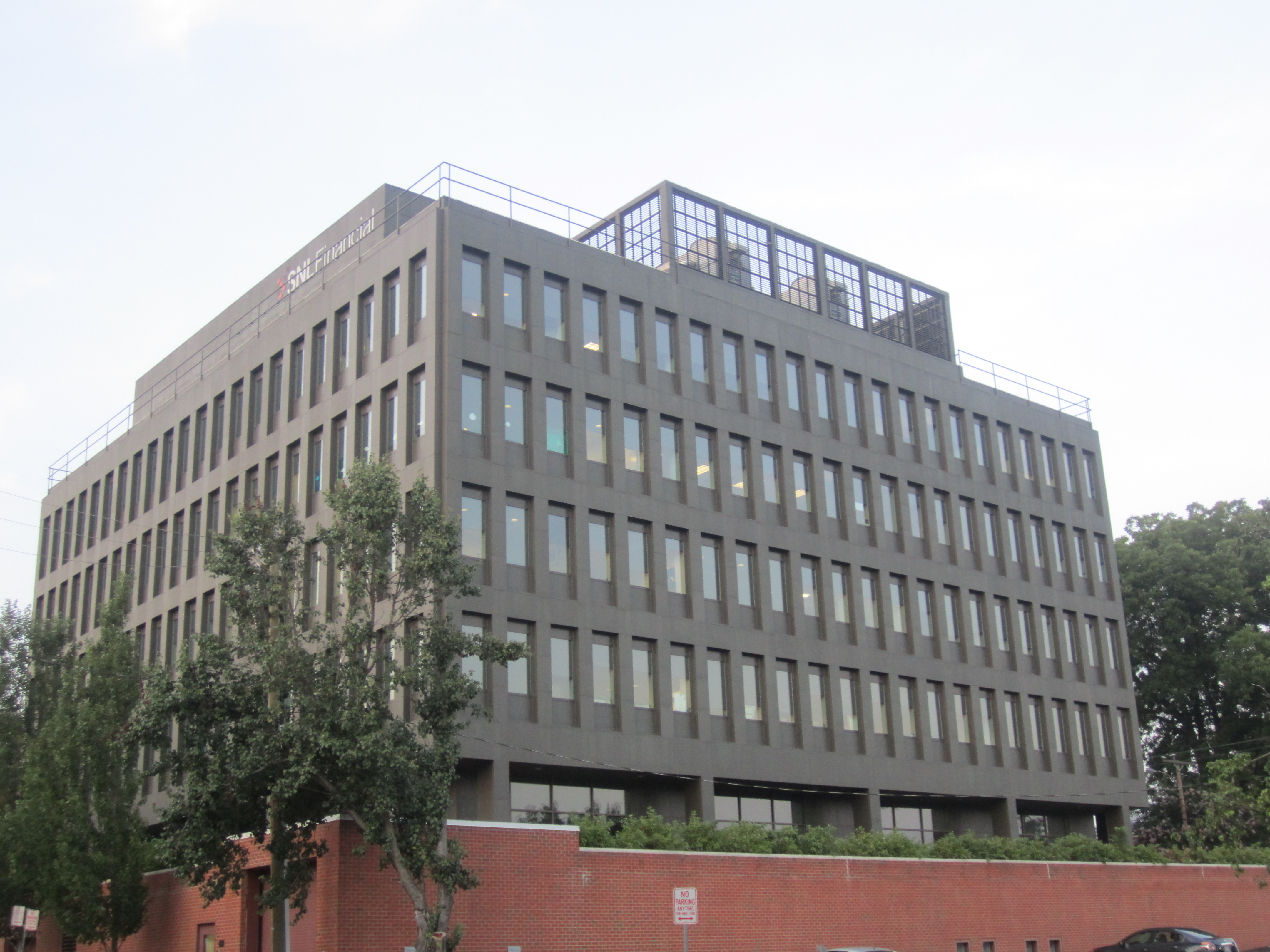 I took photo of SNL Financial Bank in Charlottesville, VA, with Canon camera.